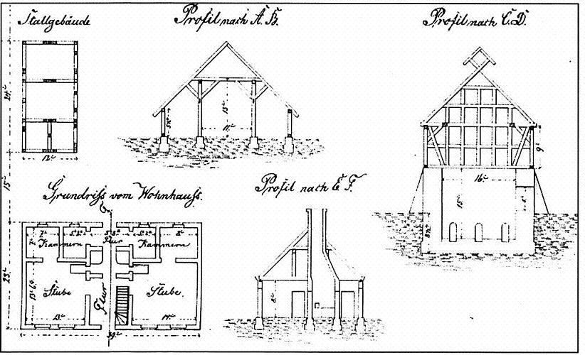 New brickyard 1855, Niemegker Str.2 in Gömnigk. The village Gömnigk is a part of the town Brück in the district Potsdam Mittelmark, state Brandenburg, Germany, at the border to the natural preserve Naturpark Hoher Fläming.